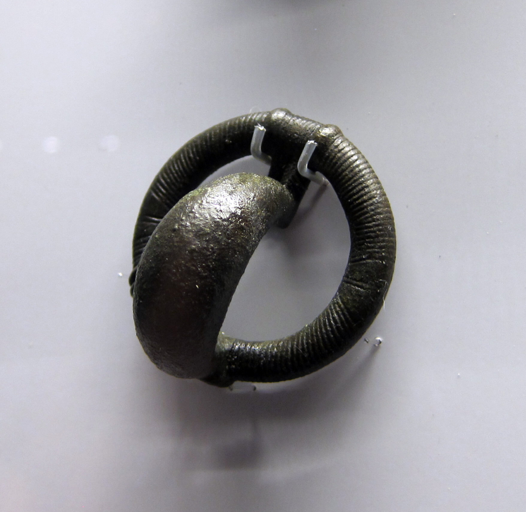 Museum of Prehistory and Archaeology of Cantabria. Hispanic anular buckle from Monte Bernorio (Villarén de Valdivia, Palencia)